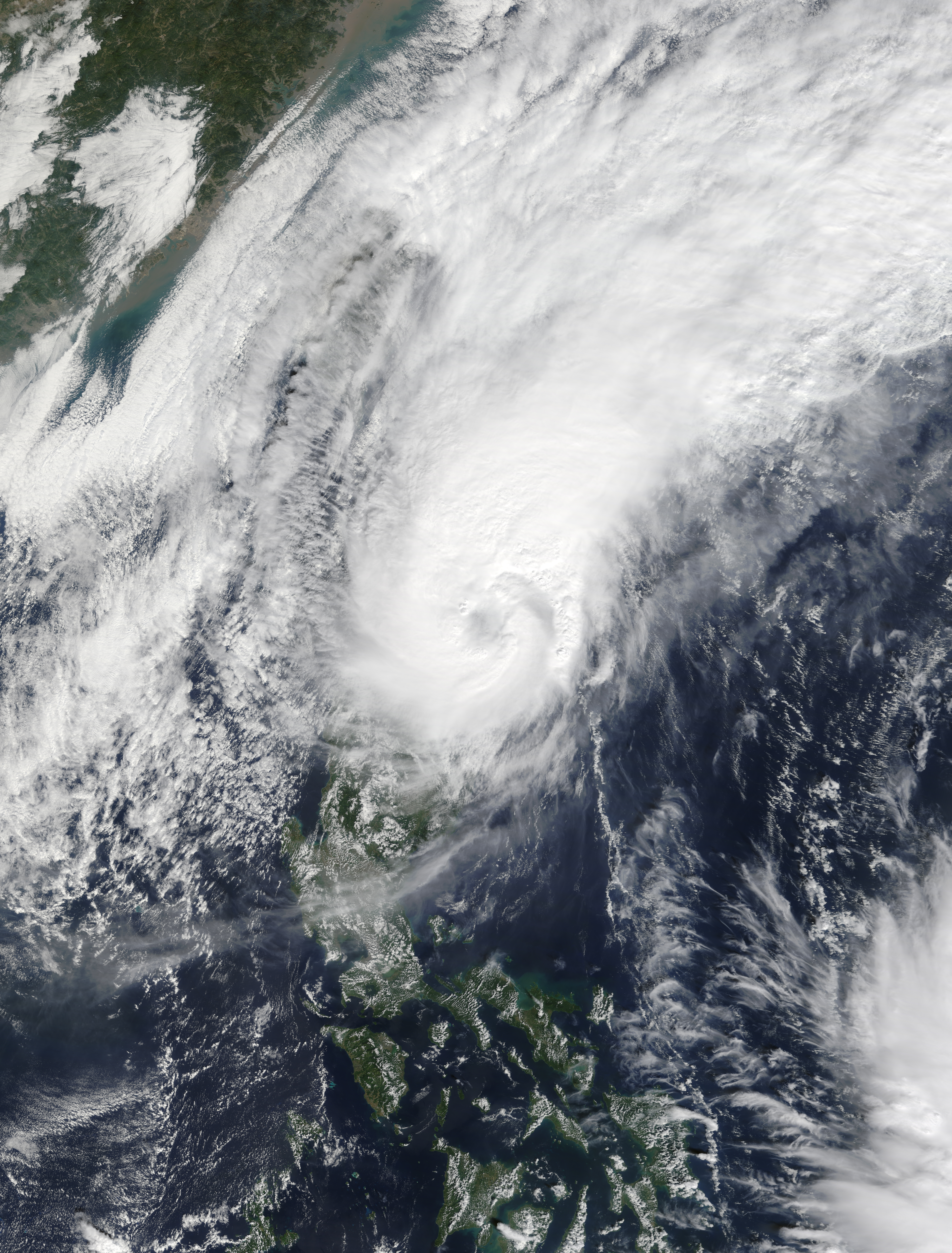 Severe Tropical Storm Kalmaegi on November 19, 2019